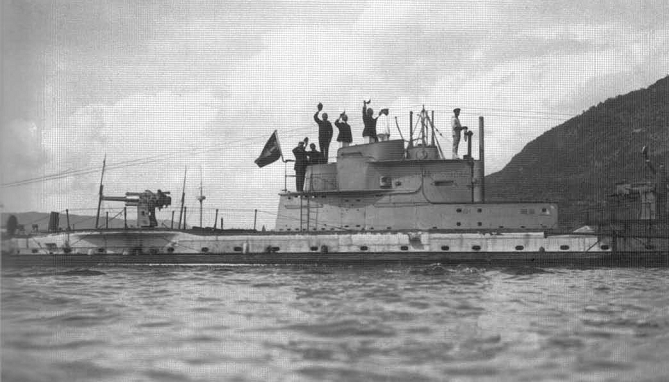 U 35 off Cattaro (Kotor) in the southern Adriatic